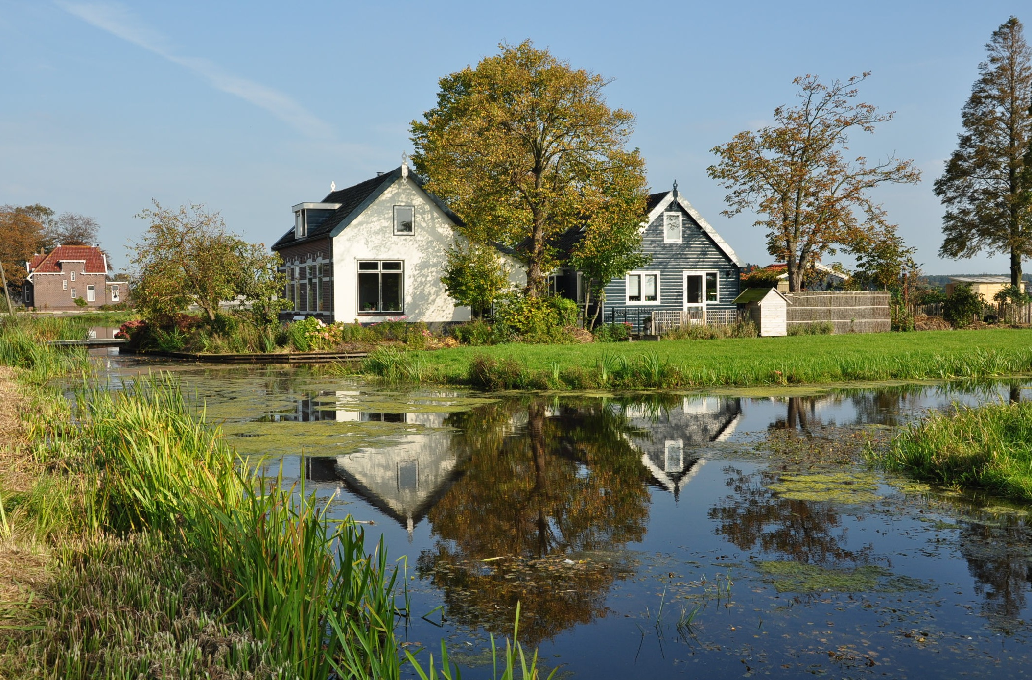 Scene in the hamlet of Tempel, municipality of Bodegraven-Reeuwijk (prov. South Holland, Netherlands).